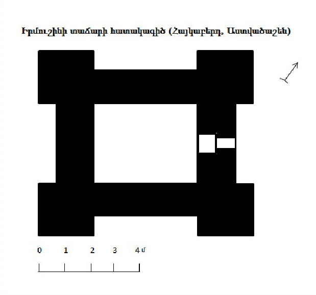 Temple of Irmusin in Haykaberd, Astvatsashen village